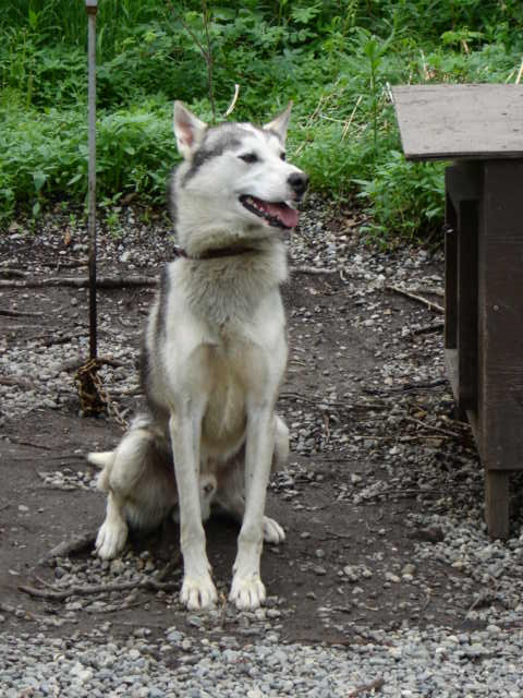 This is one of the Alaskan huskies at the Iditarod Race Headquarters in Wasilla Alaska. They are very intelligent, very friendly and all they want to do is run and pull the sled. Their fur is very thick, outer layer is coarse and feels like it has a light oil on it, but underneath is soft. Happy Furry Friday!!